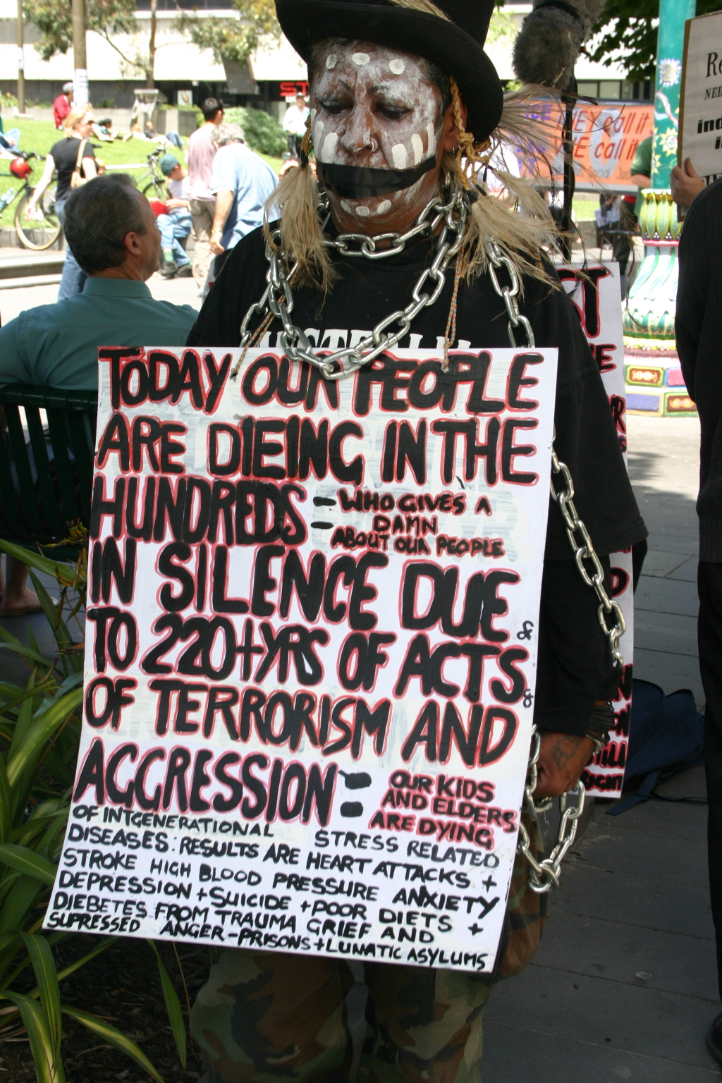 Susan Charles Rankin, better known as Aunty Sue Rankin, elder of the Dja Dja Wurrung people of the Kulin nation, at Human Rights Day gathering December 11, 2005 in Melbourne.